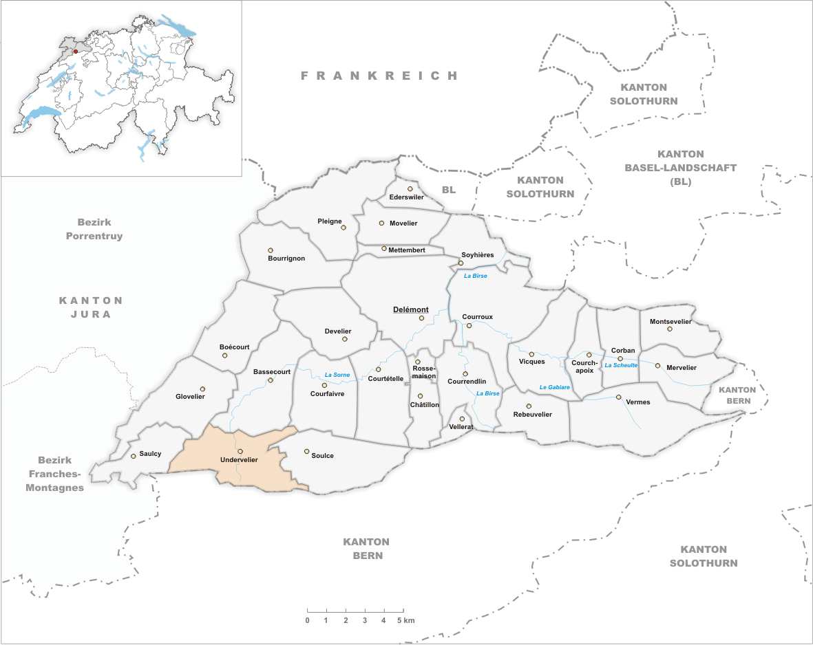 Municipality Undervelier